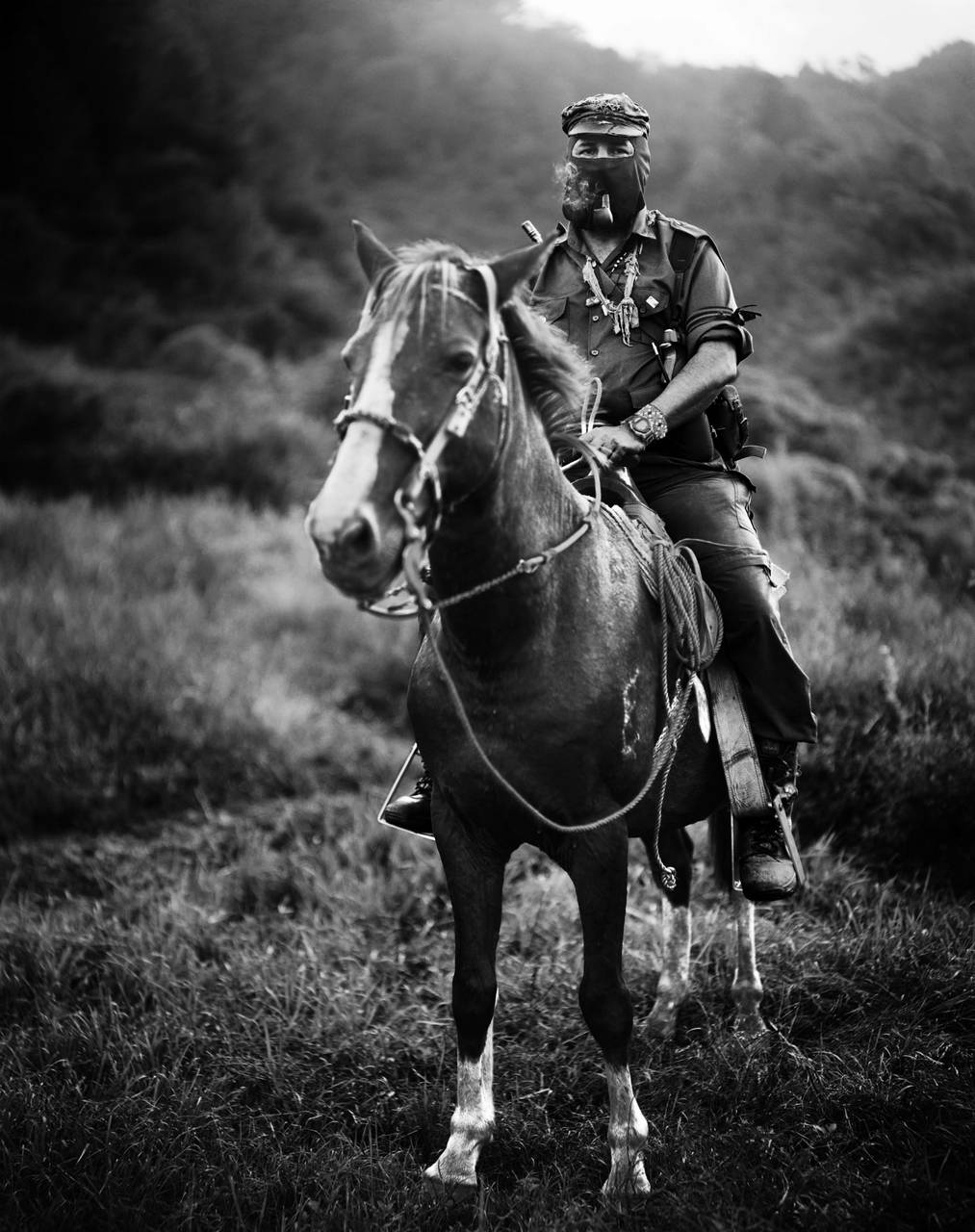 Subcomandante Marcos, the spokesman of the Ejército Zapatista de Liberación Nacional, striking a pose, smoking a pipe atop a horse in Chiapas, Mexico